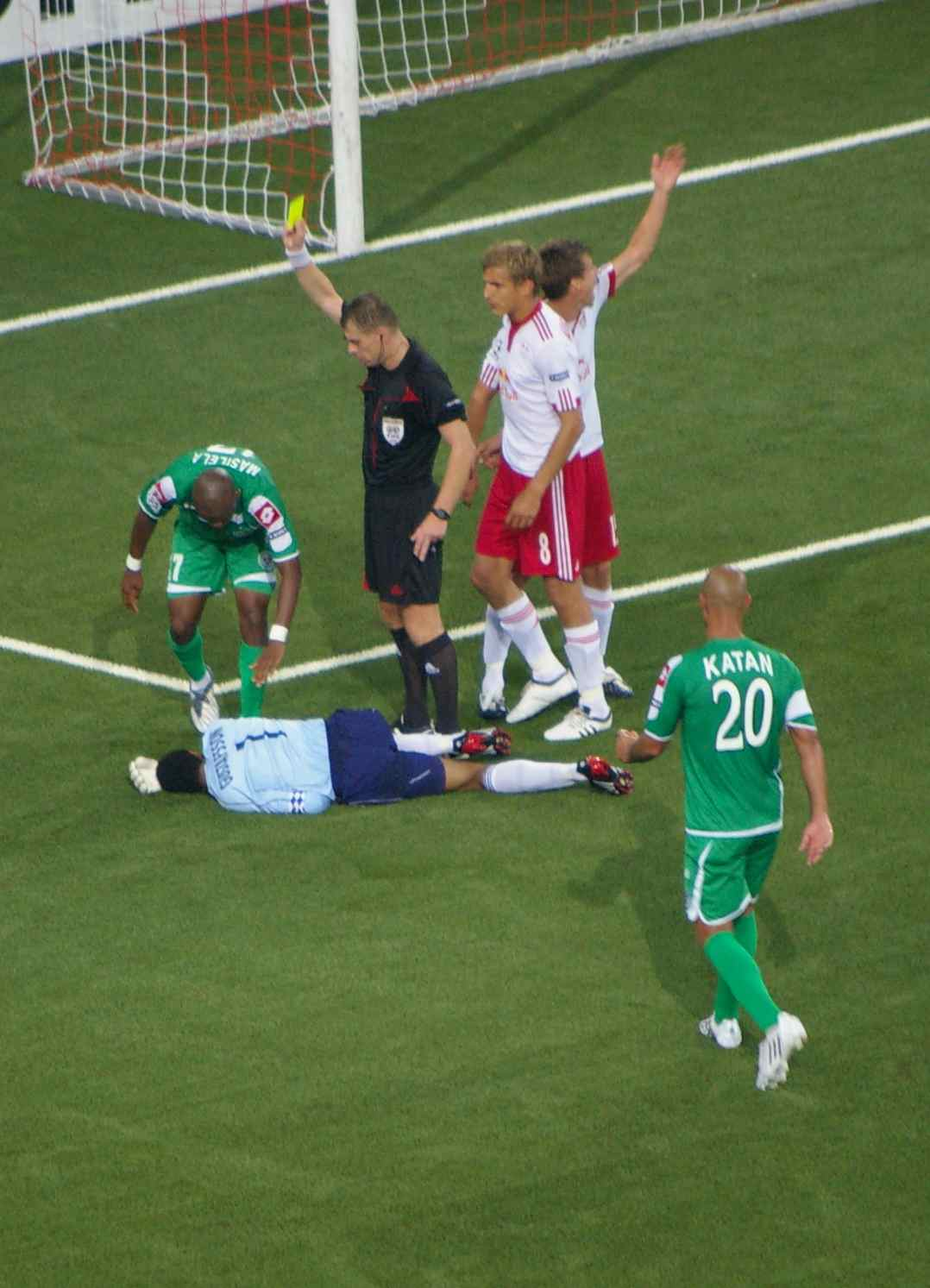 Champions League qualifier 4th leg